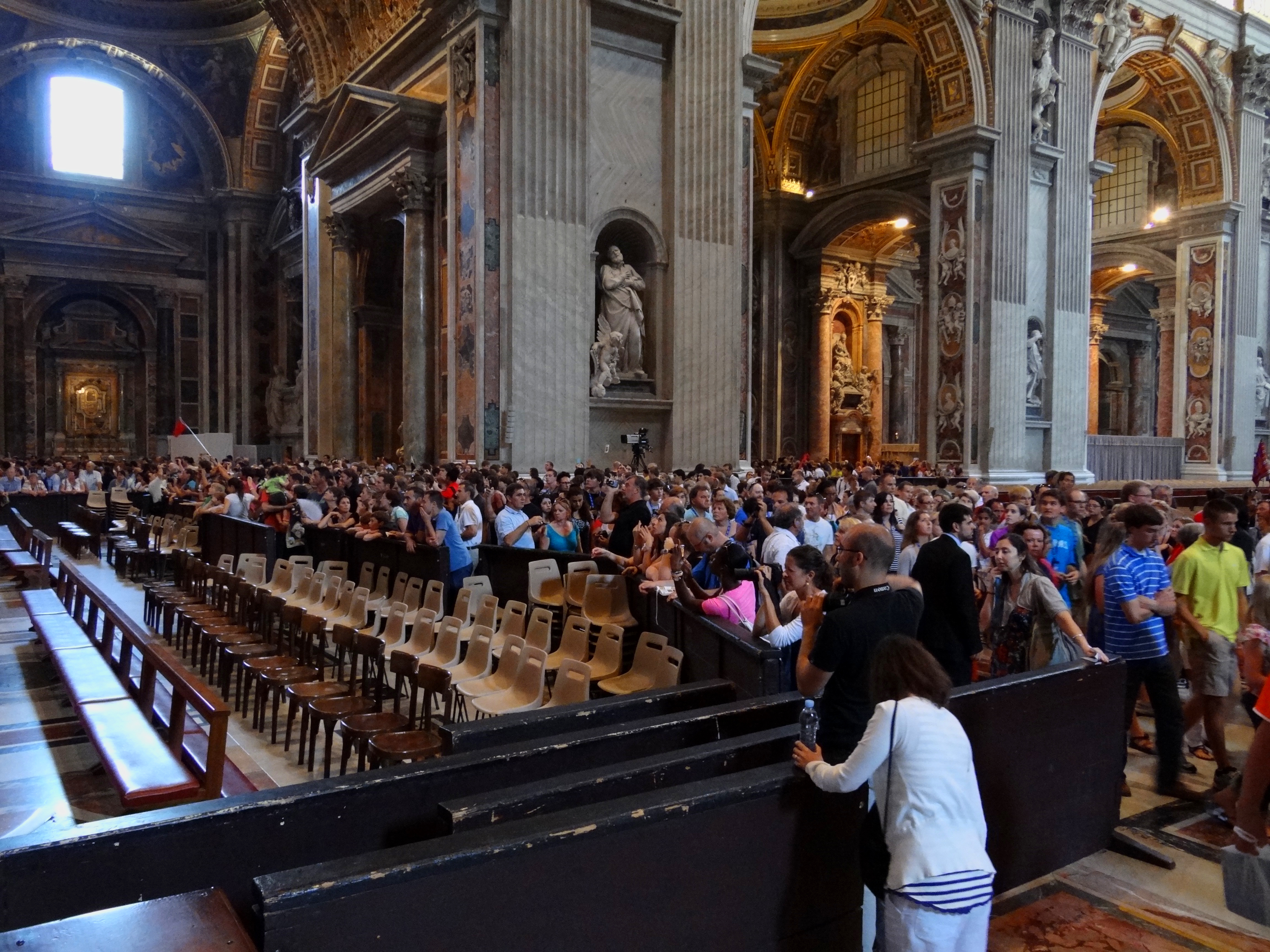 Mass tourism, the crowd inside St. Peter's Basilica in the Vatican, located within the city of Rome.